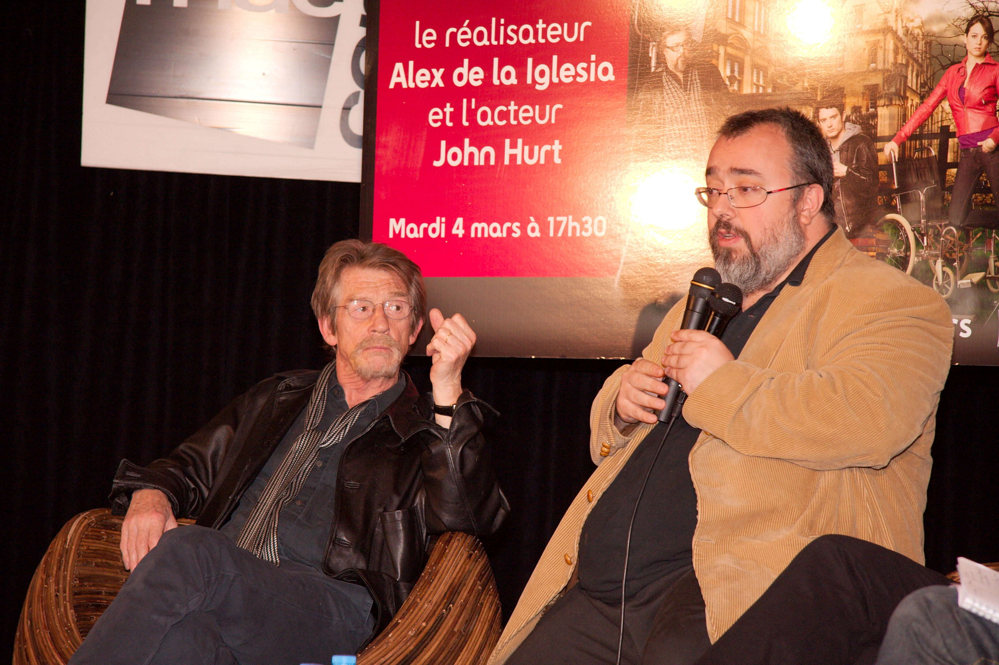 Rendezvous with John Hurt and Álex de la Iglesia at Fnac des Ternes (Paris, France).